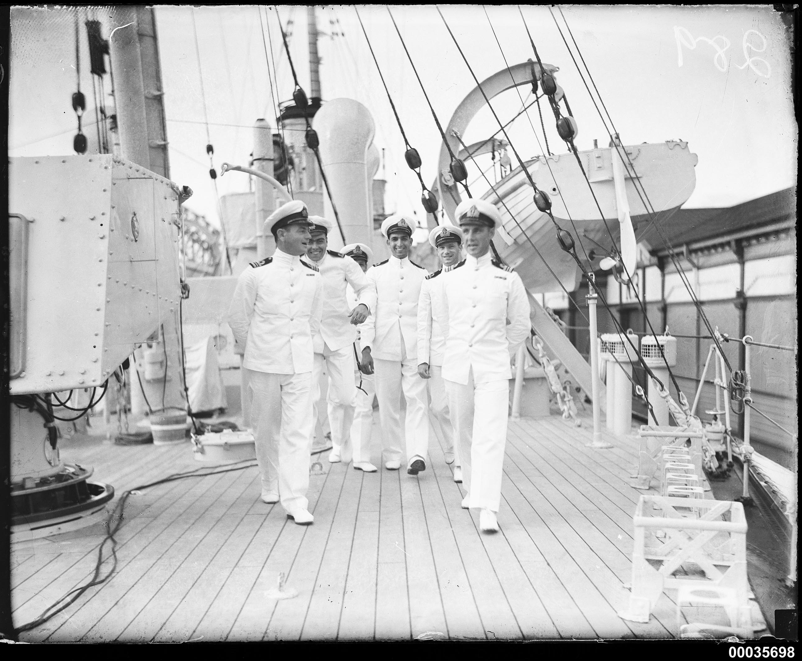 This photograph depicts Royal Indian Navy officers of the sloop HMIS HINDUSTAN probably during their 1934 visit to Australia. This photograph was probably taken at wharf 3, East Circular Quay in Sydney after the ship arrived on 29 November. The vessel departed Sydney for Brisbane at 10:38am on 7 December. HINDUSTAN was stationed in Australian waters to act as an escort for ships attending the Victorian centenary celebrations in October 1934. This photo is part of the Australian National Maritime Museum’s Samuel J. Hood Studio collection. Sam Hood (1872-1953) was a Sydney photographer with a passion for ships. His 60-year career spanned the romantic age of sail and two world wars. The photos in the collection were taken mainly in Sydney and Newcastle during the first half of the 20th century. The ANMM undertakes research and accepts public comments that enhance the information we hold about images in our collection. This record has been updated accordingly. Photographer: Samuel J. Hood Studio Collection Object no. 00035698